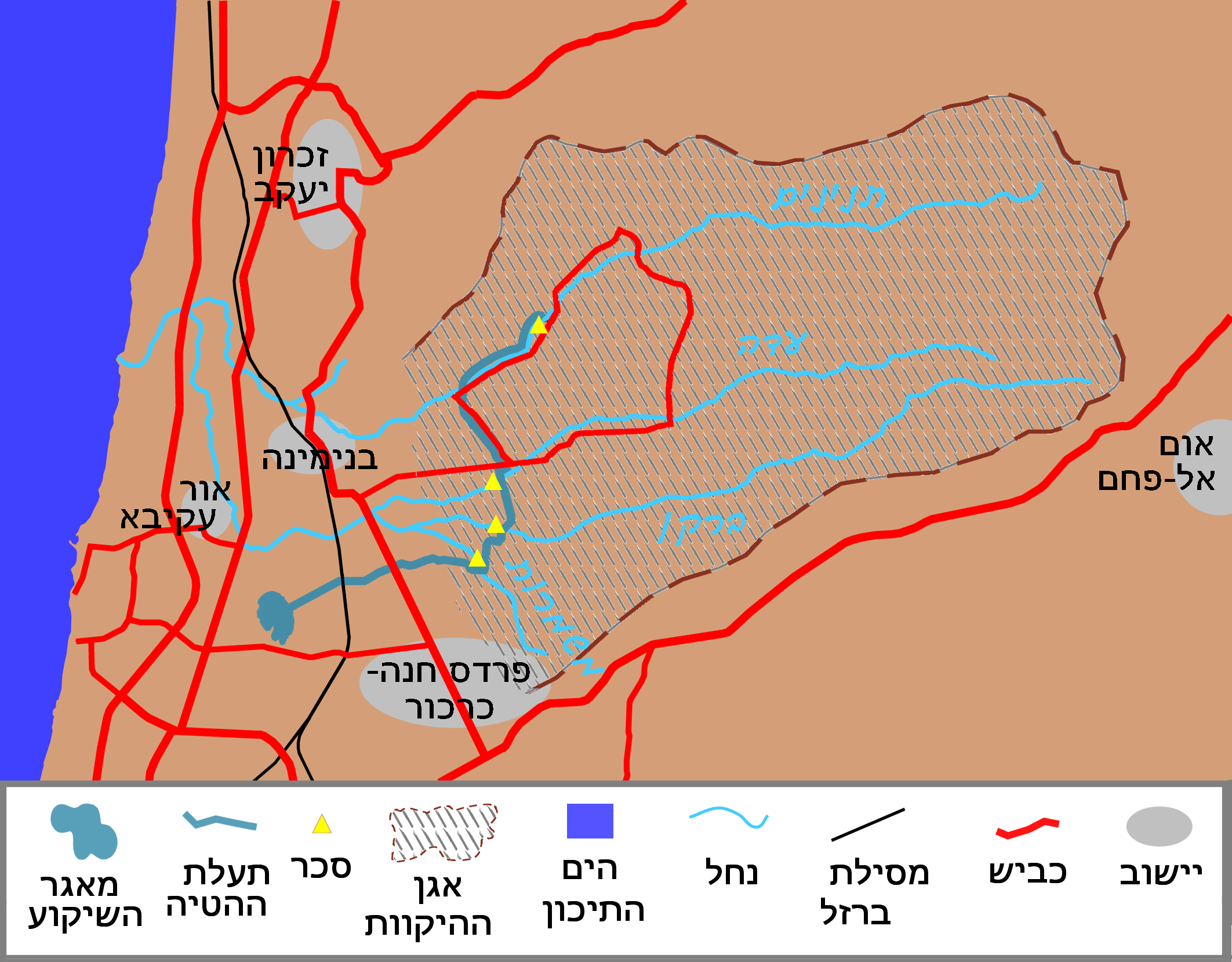 Map of the "Nahalei Menashe" water project in Israel.